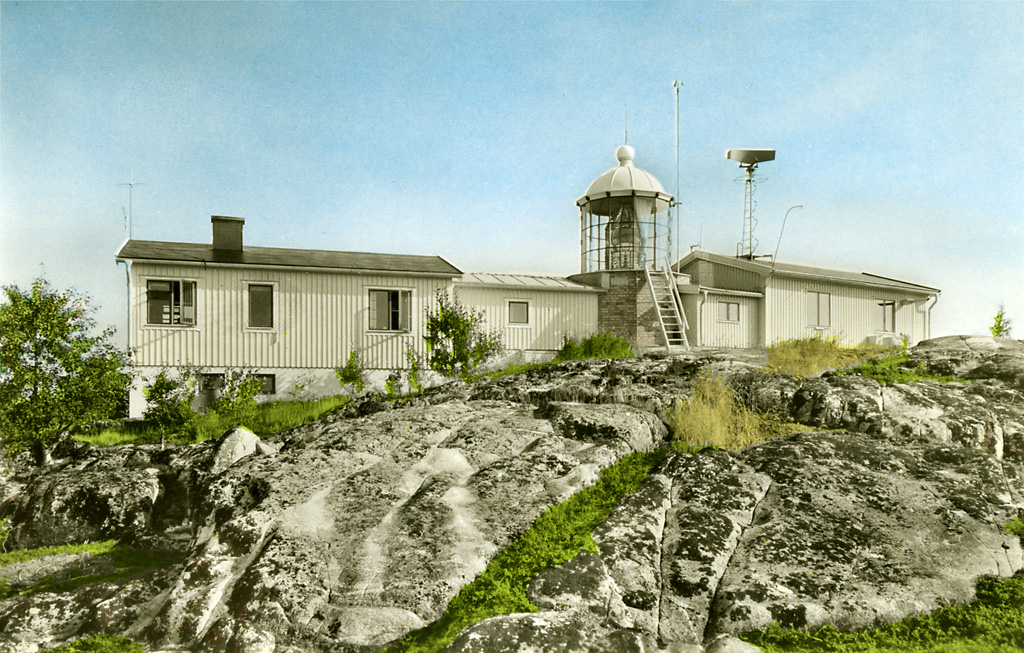 Bjuröklubb lighthouse at the coast of the Baltic Sea. Bjuröklubbs fyr vid Östersjöns kust. Parish (socken): Lövånger Province (landskap): Västerbotten Municipality (kommun): Skellefteå County (län): Västerbotten Photograph by: Unknown. Almquist & Cöster Date: 1940-1959 Format: Original postcard, tinted Persistent URL: Read more about the photo database (in english)